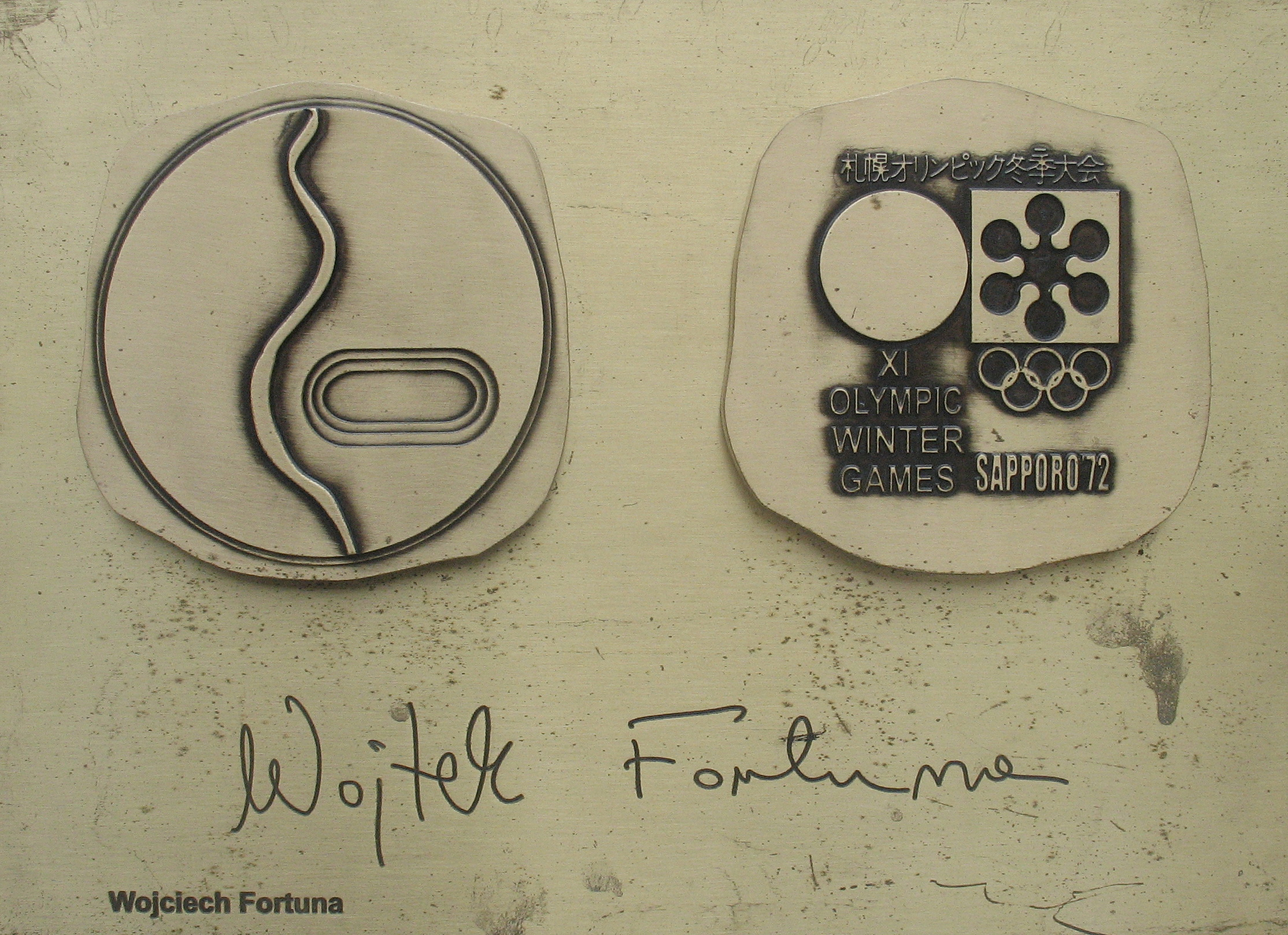 Wojciech Fortuna medal & autograph in Avenue of Sport Stars Dziwnów